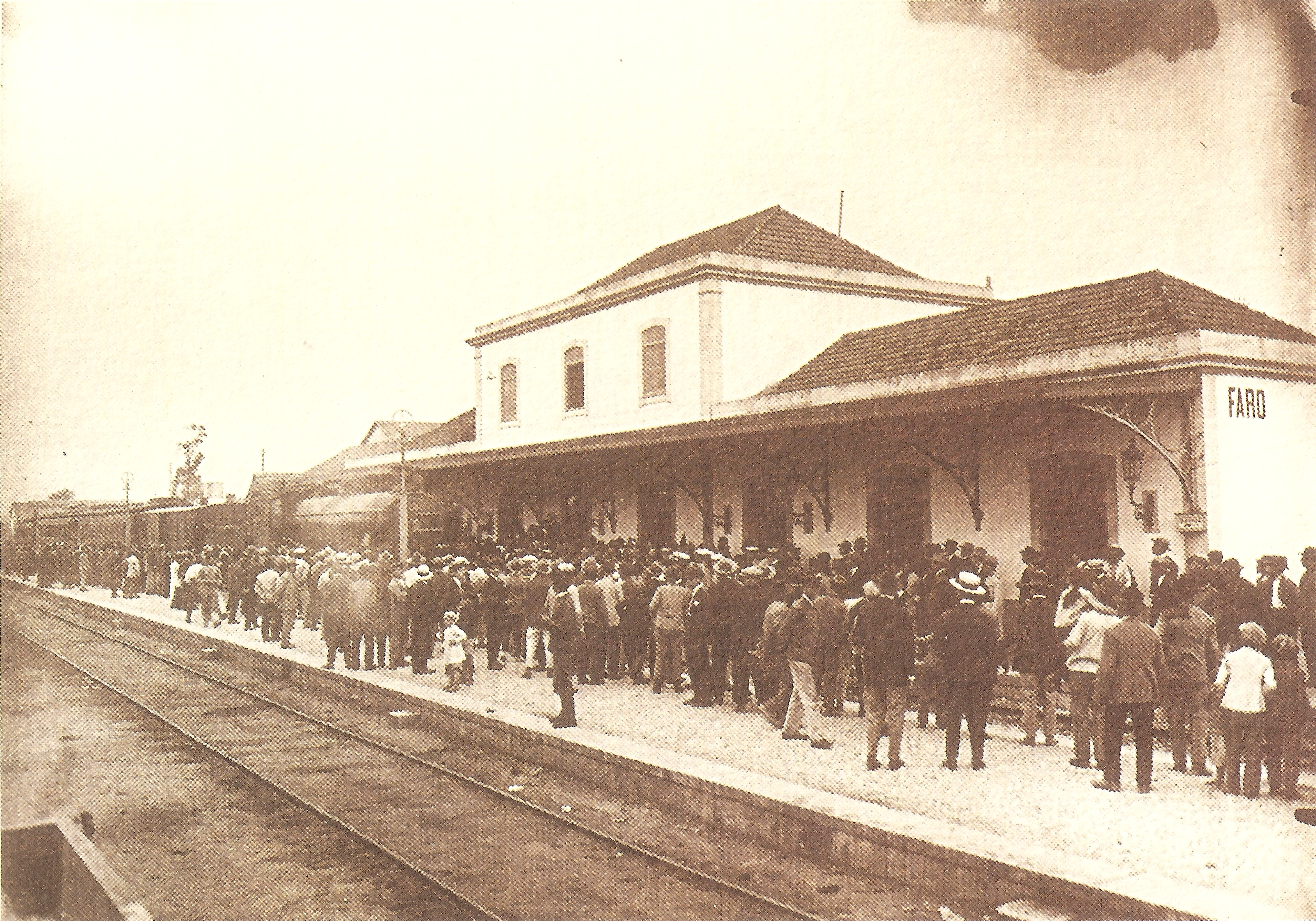 Train on the Faro Railway Station, in Portugal.